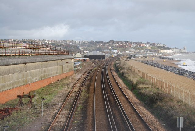 Hastings to Bexhill seafront railway